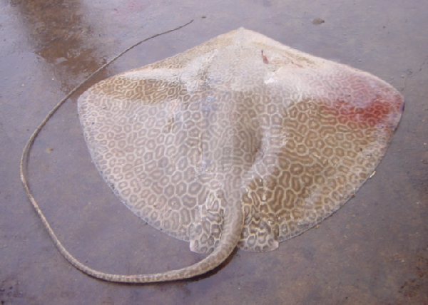 Himantura undulata collected in the harbor of Karachi, Pakistan.